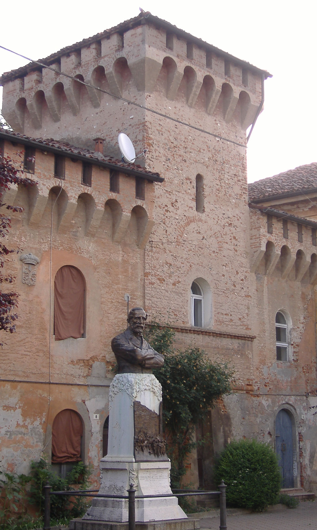 The Castle of San Fiorano, Italy